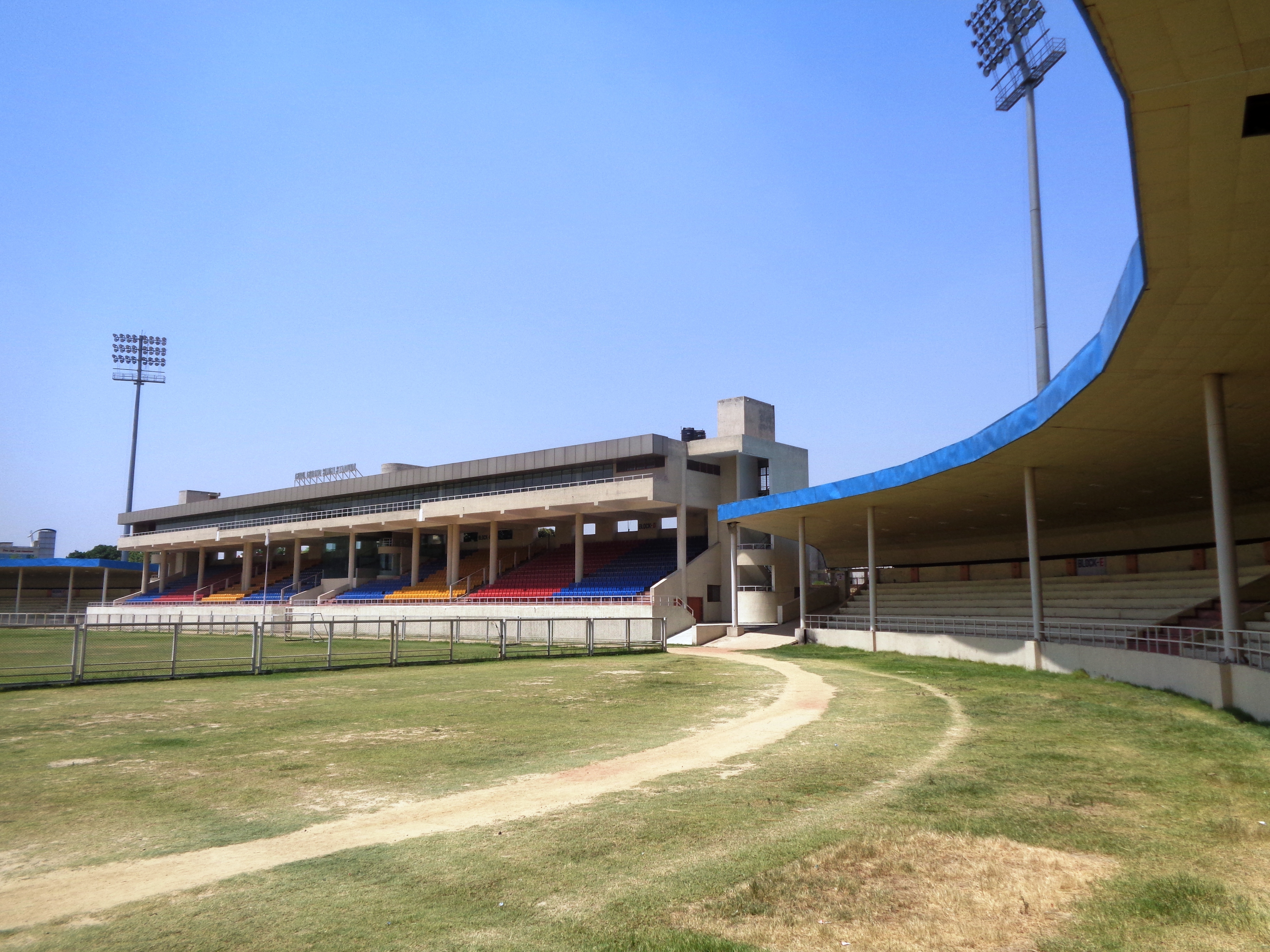 GURU GOBIND SINGH STADIUM, JALANDHAR, VIP PAVILION-1